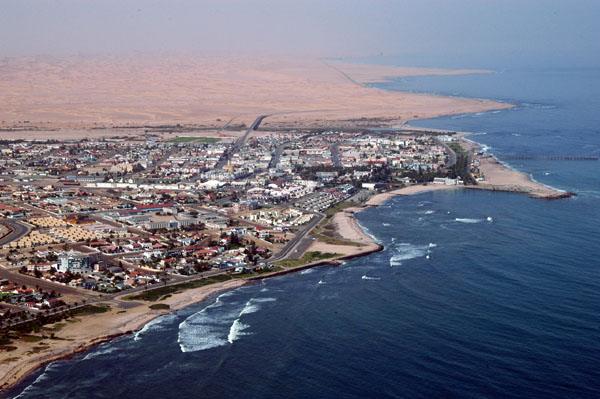 Close-up aerial photo of Swakopmund (Namibia)